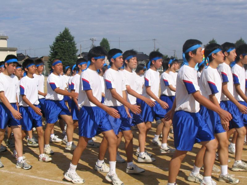 Field day at Demachi Jr. High, Tonami City, Toyama, JAPAN 富山県砺波市立出町中学校. Students march.